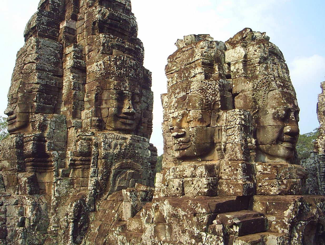 Face towers on the upper terrace of Bayon in Angkor.